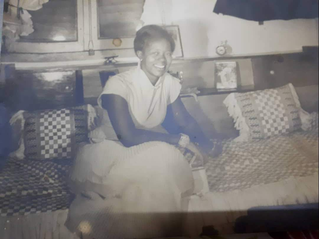 Ndeye Coumba Mbengue Diakhate as a young lady in the 40s